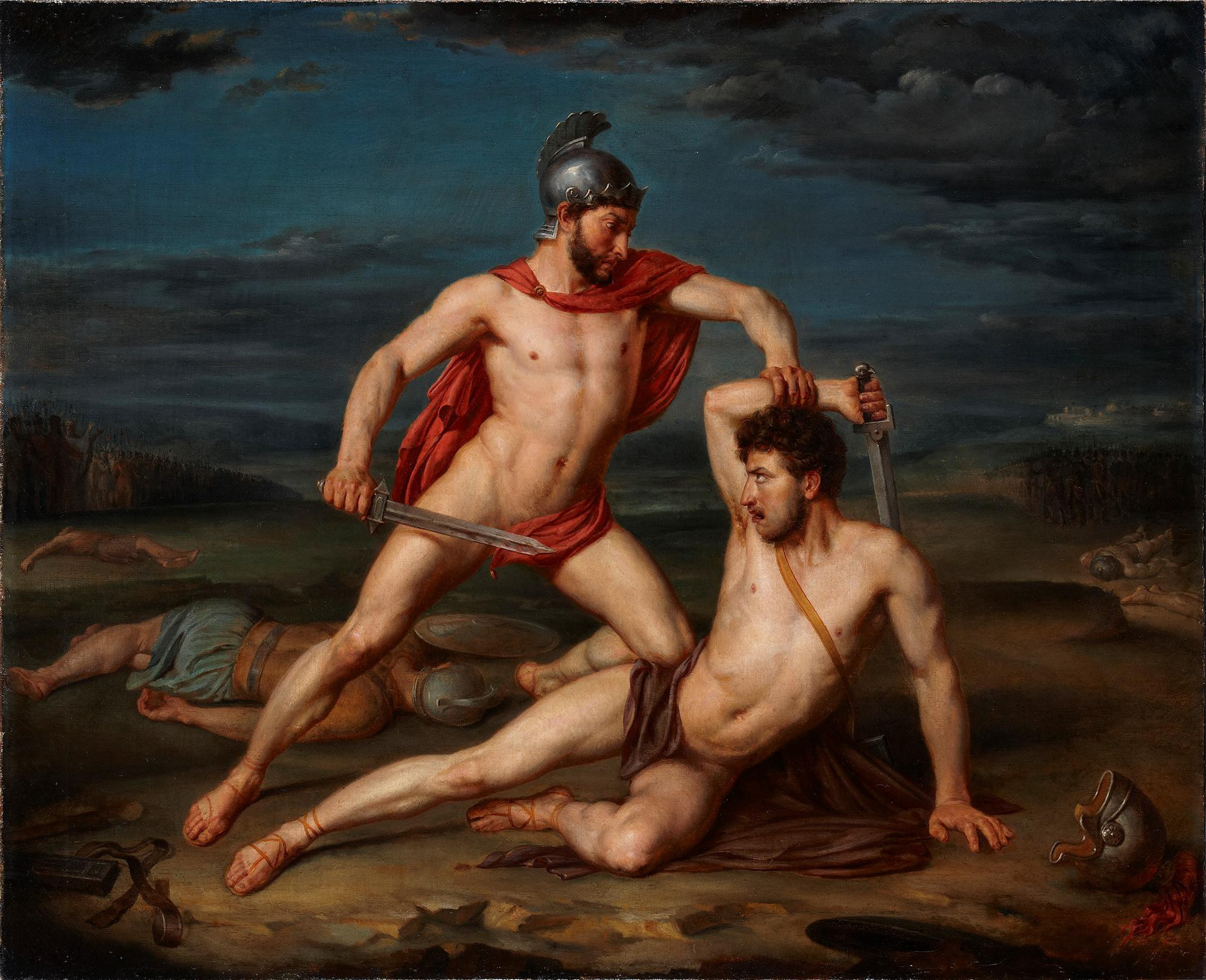 Achilles Defeating Hector